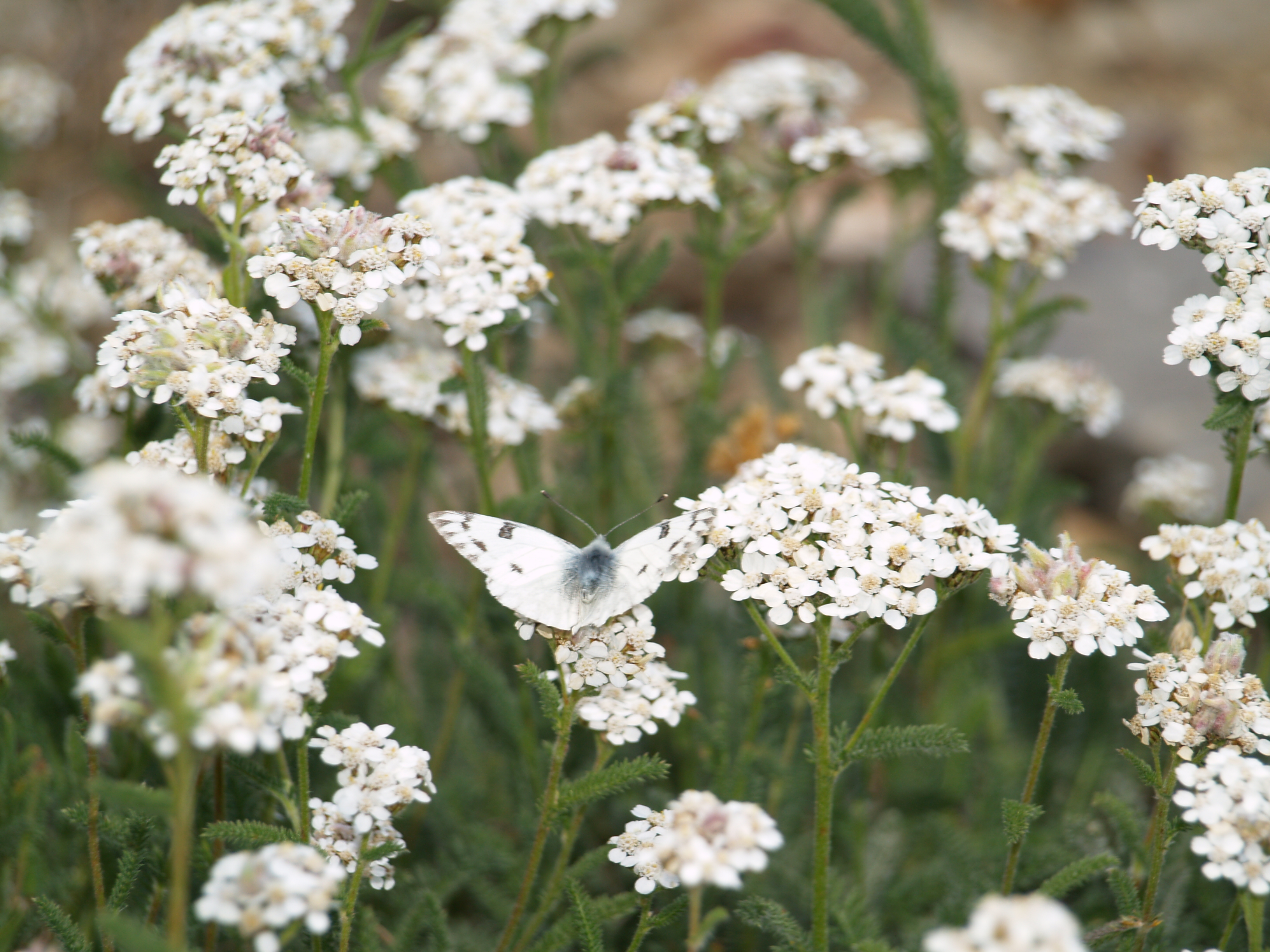 Western white (Pontia occidentalis). Snowbird, Utah.